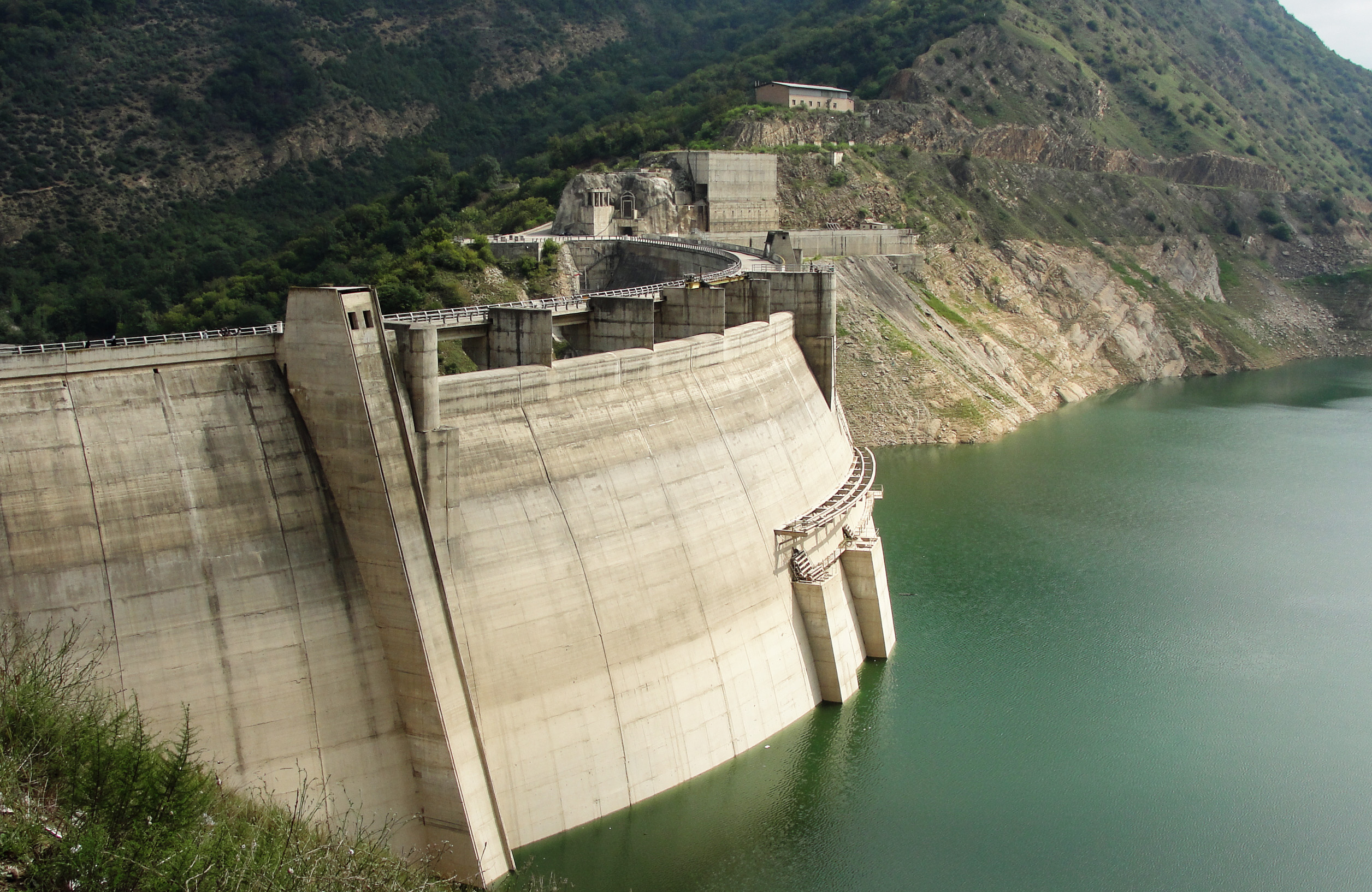 Rajai Dam (Soleyman Tangeh) in sari, iran.